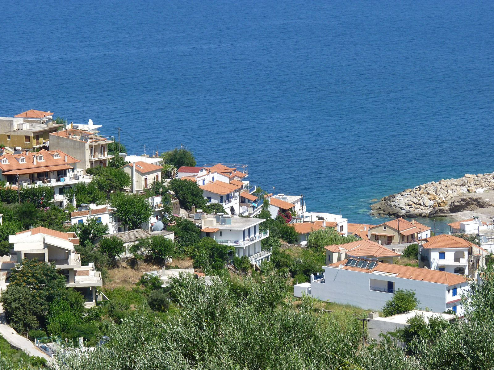 Hill side of Karavostamo